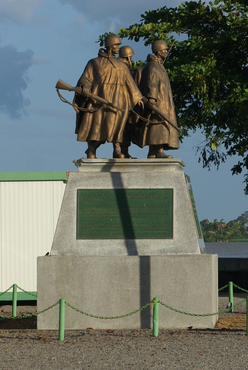 Koreaanse Oorlogsmonument, Onafhankelijkheidsplein, Paramaribo, Surinam. 2008.